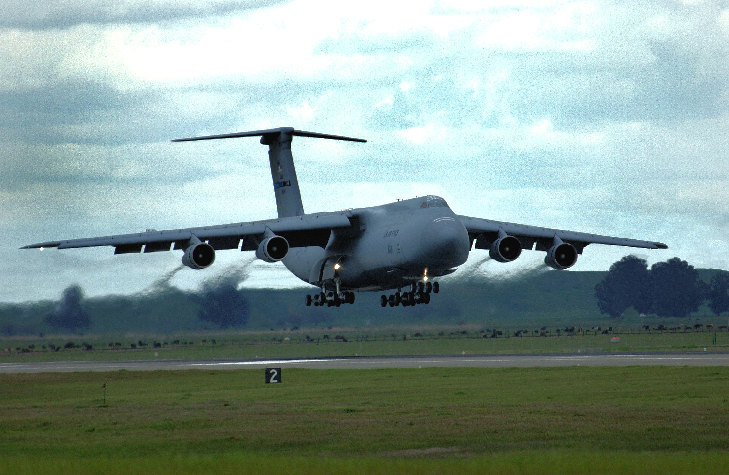 21st Airlift Squadron Lockheed C-5B Galaxy 87-0037 returns from a training flight March 31 2006. The event marked the final C-5 flight for the 21st Airlift Squadron. The day also marked the squadron’s 64th anniversary. Aircraft was transferred to the USAF Reserve 439th Airlift Wing, Westover AFB, Massachusetts. (U.S. Air Force photo by Nan Wylie)